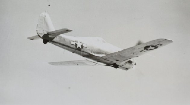 PictionID:38235489 - Catalog:Array - Title:Array - Filename:15_002302.TIF - -------Image from the Charles Daniels Photo Collection.----Album: German Aircraft.-----------PLEASE TAG these images with any information you know about them so that we can permanently store this data with the original image file in our Digital Asset Management System.-----------------SOURCE INSTITUTION: San Diego Air and Space Museum Archive